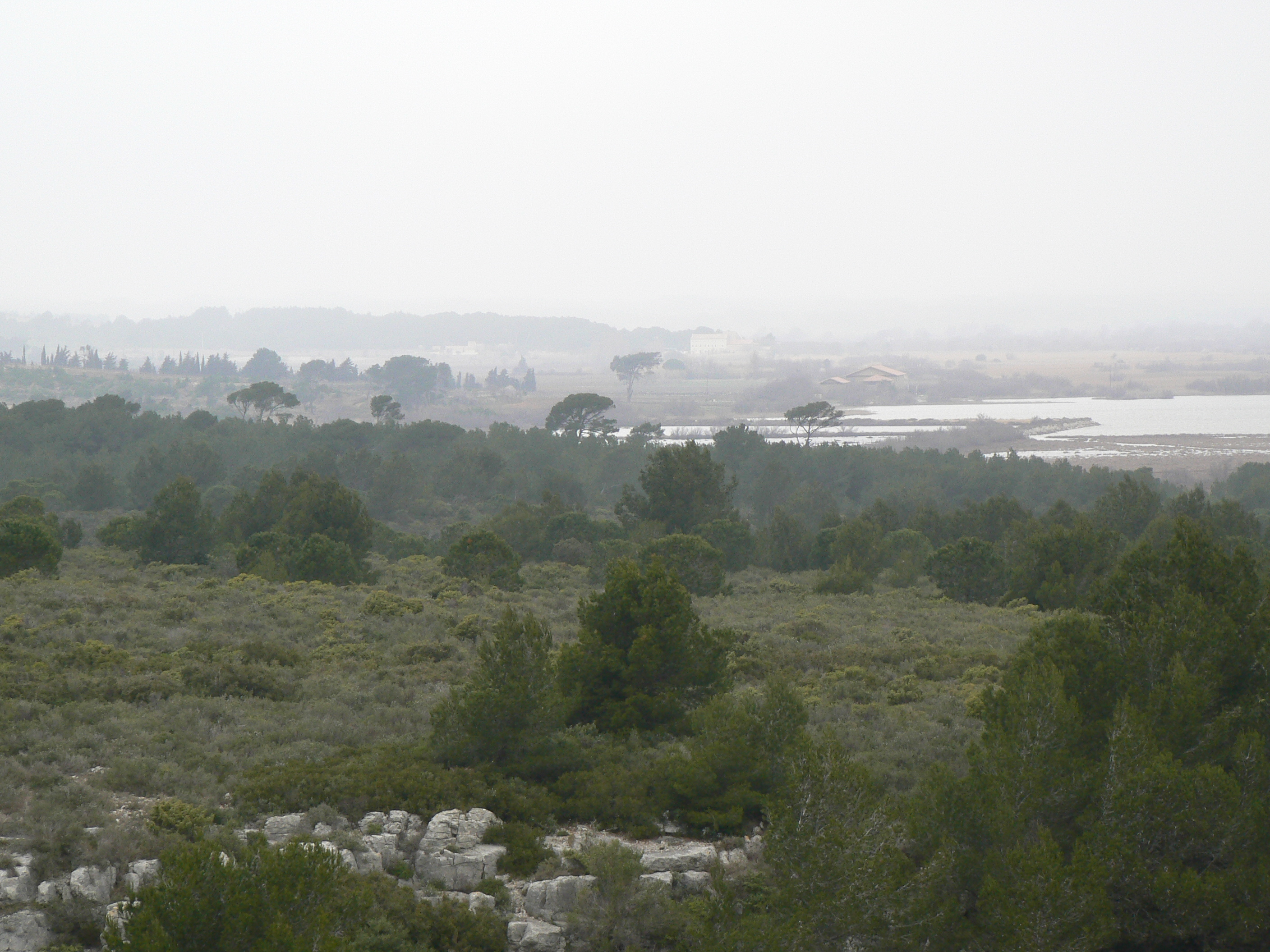 Saint-Pierre-la-mer, landscape, preserve